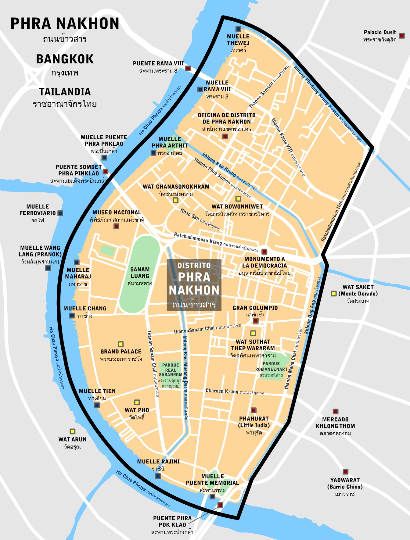 Phra Nakhon district (khet or amphoe), Bangkok, Thailand (in spanish and thai)